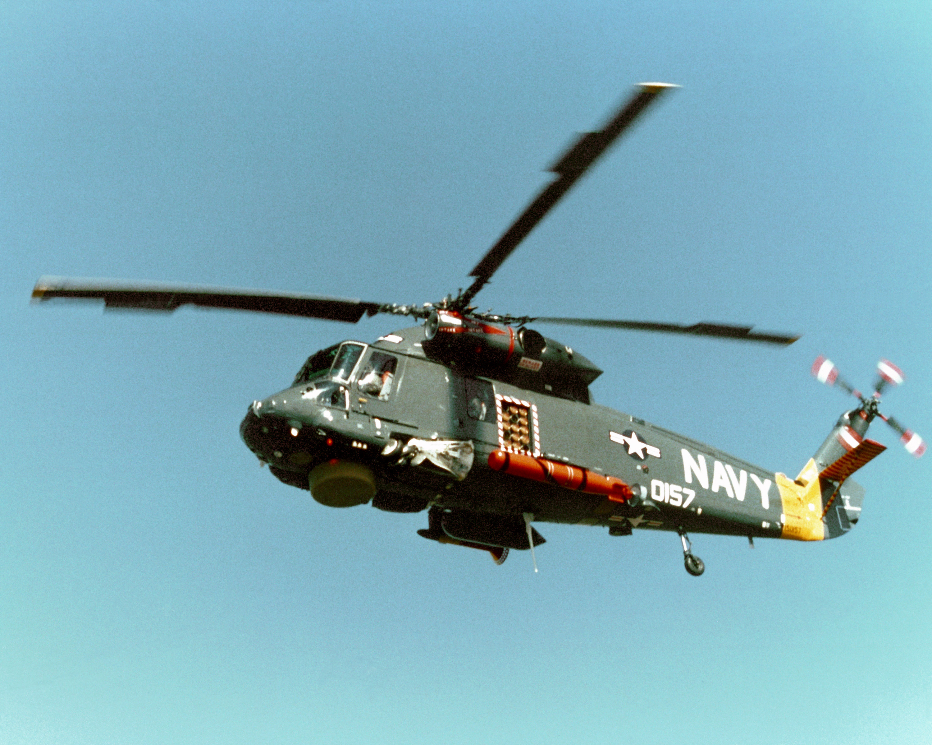 A U.S. Navy Kaman SH-2F Seasprite helicopter (BuNo 150157) equipped with a Mark 46 anti-submarine warfare torpedo in flight in 1983.